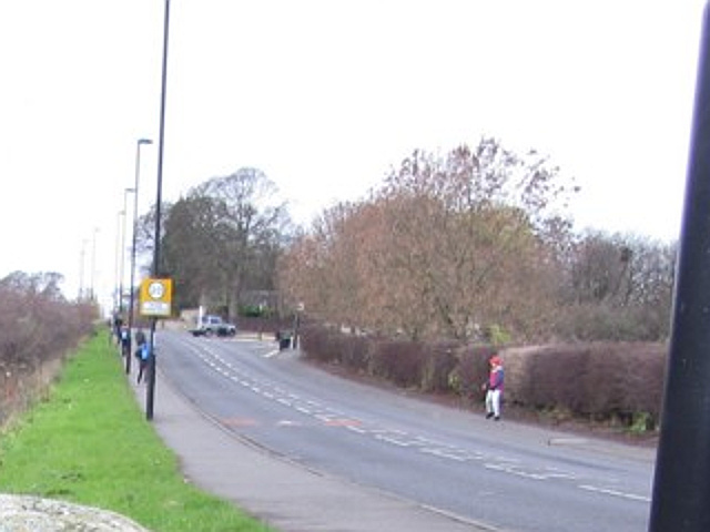 Cropped version of this image - emphasising the road rather than the milestone.